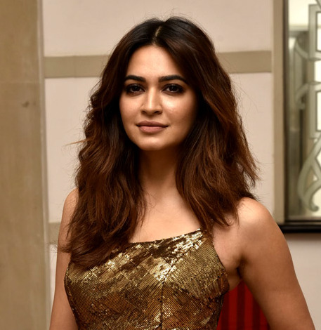 Kriti Kharbanda attends a friend’s wedding function, Mar 11, 2018